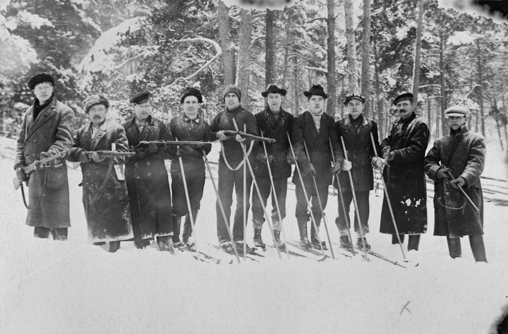 Maaria Red Guard in the 1918 Finnish Civil War Battle of Ikaalinen.